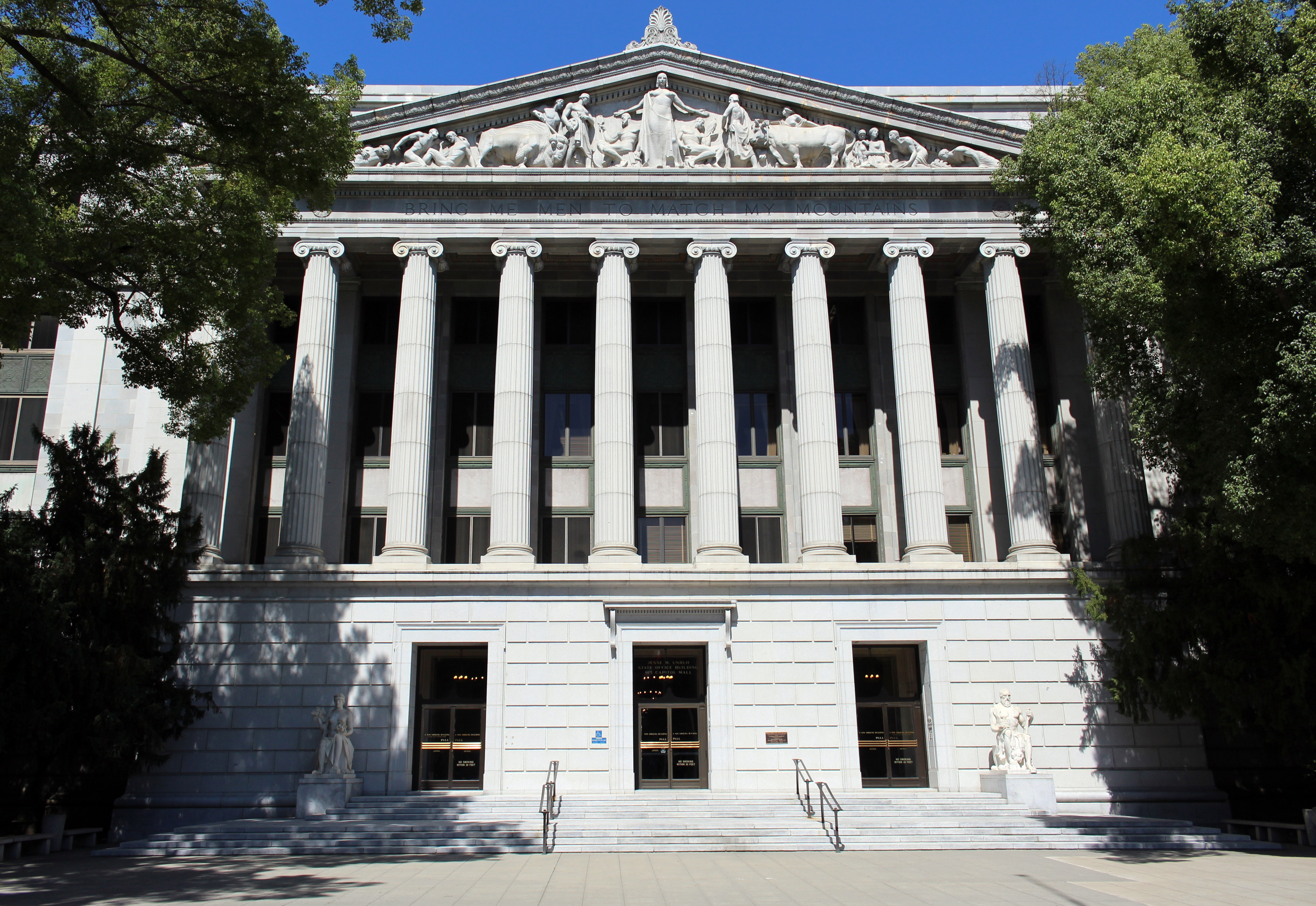 The south facade of the Jesse M. Unruh State Office Building in Sacramento, California. Photographed by user Coolcaesar on September 3, 2016.